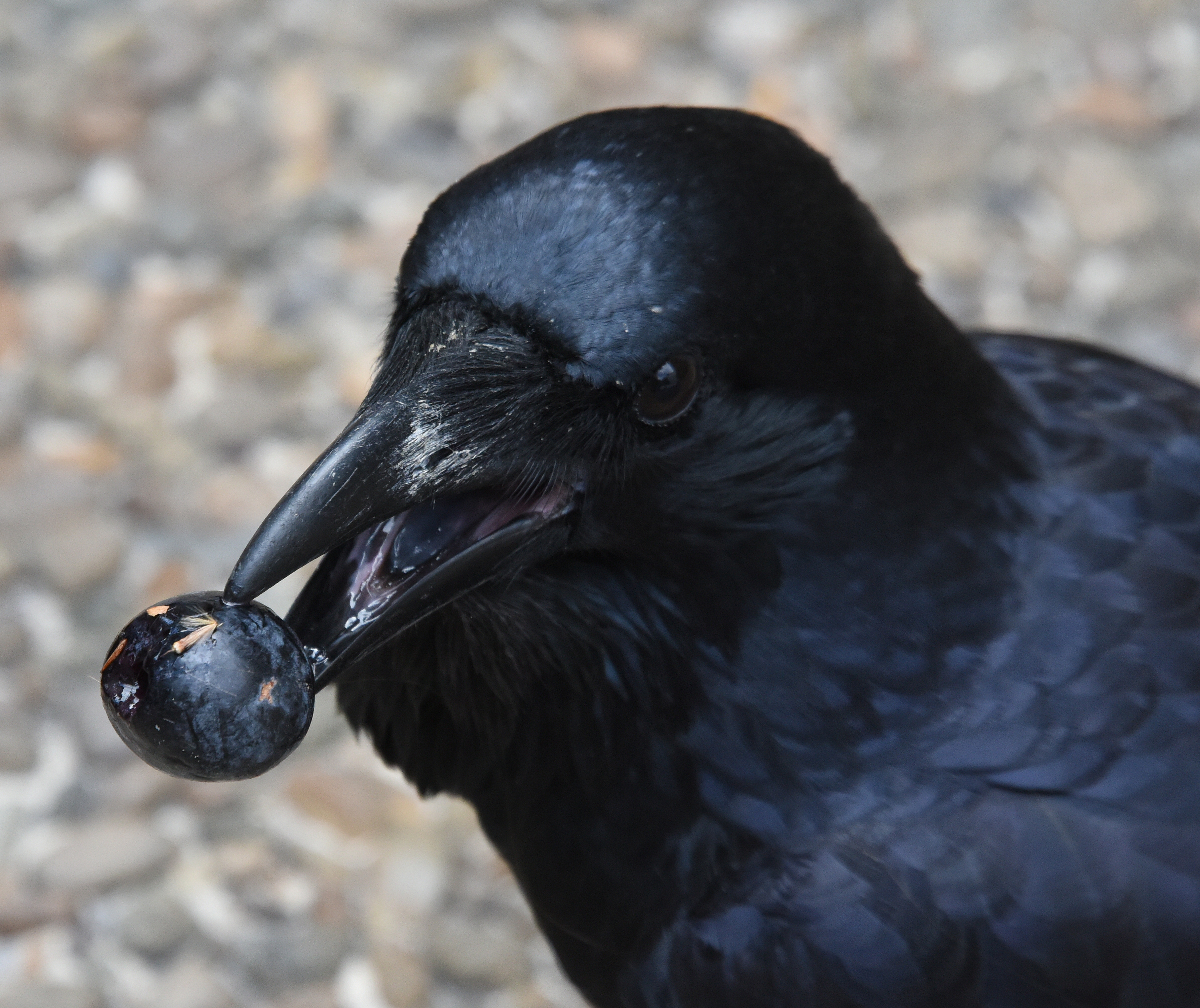 Crow in Sydney Square, Sydney